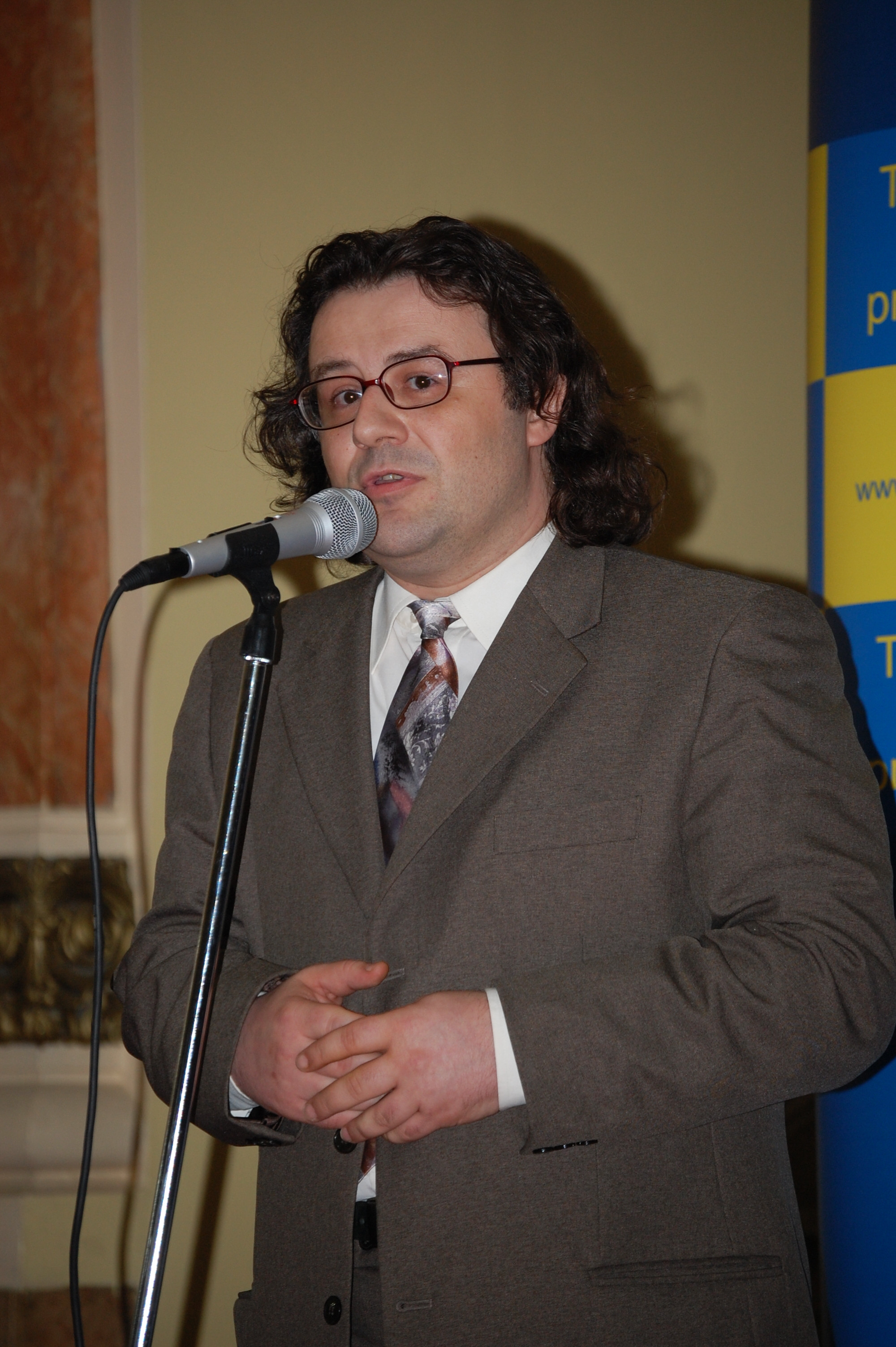 At the presentation of "Revista Arhivelor. Archives Review"